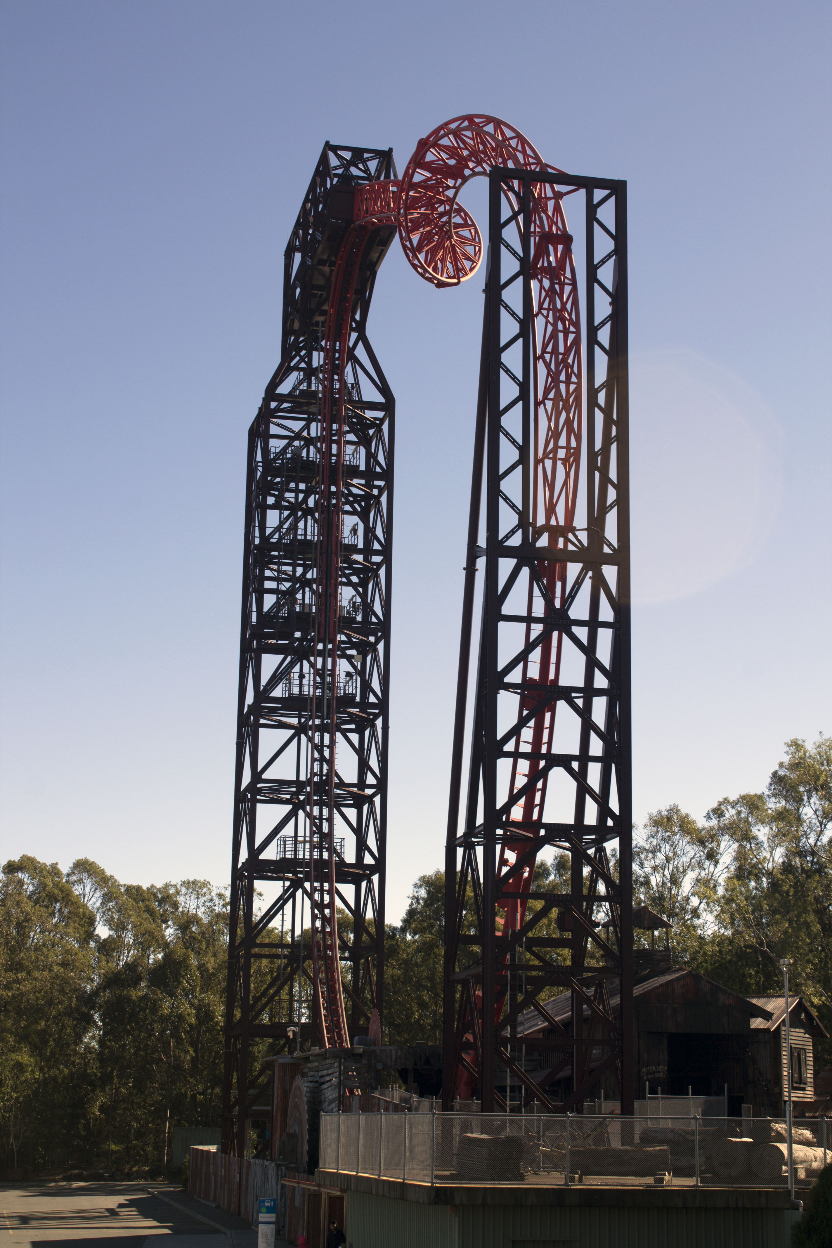 The BuzzSaw viewed from the entrance to Dreamworld where the 50 metre high "360 degree heart roll" inversion is clearly seen.